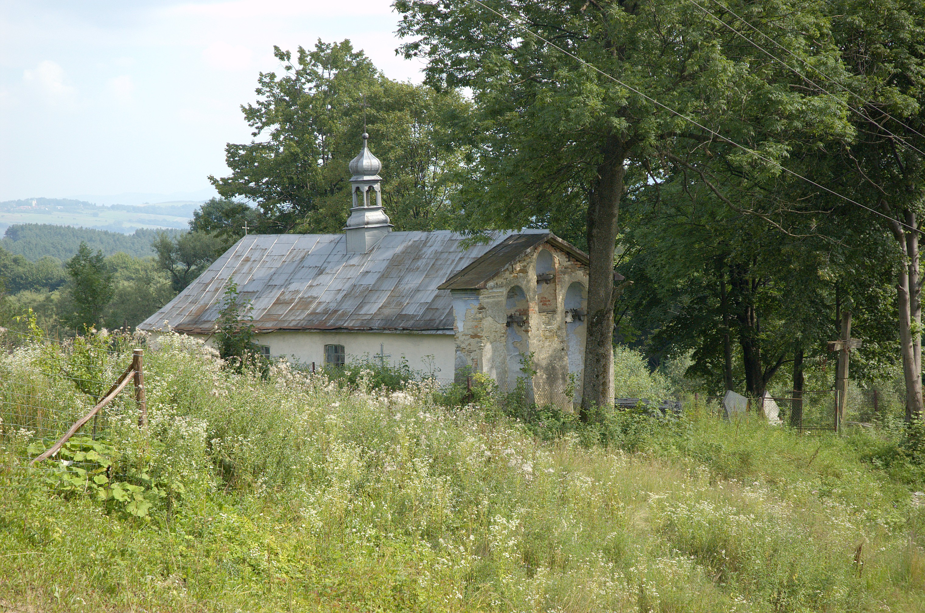 Greek Catholic church in Kopysno